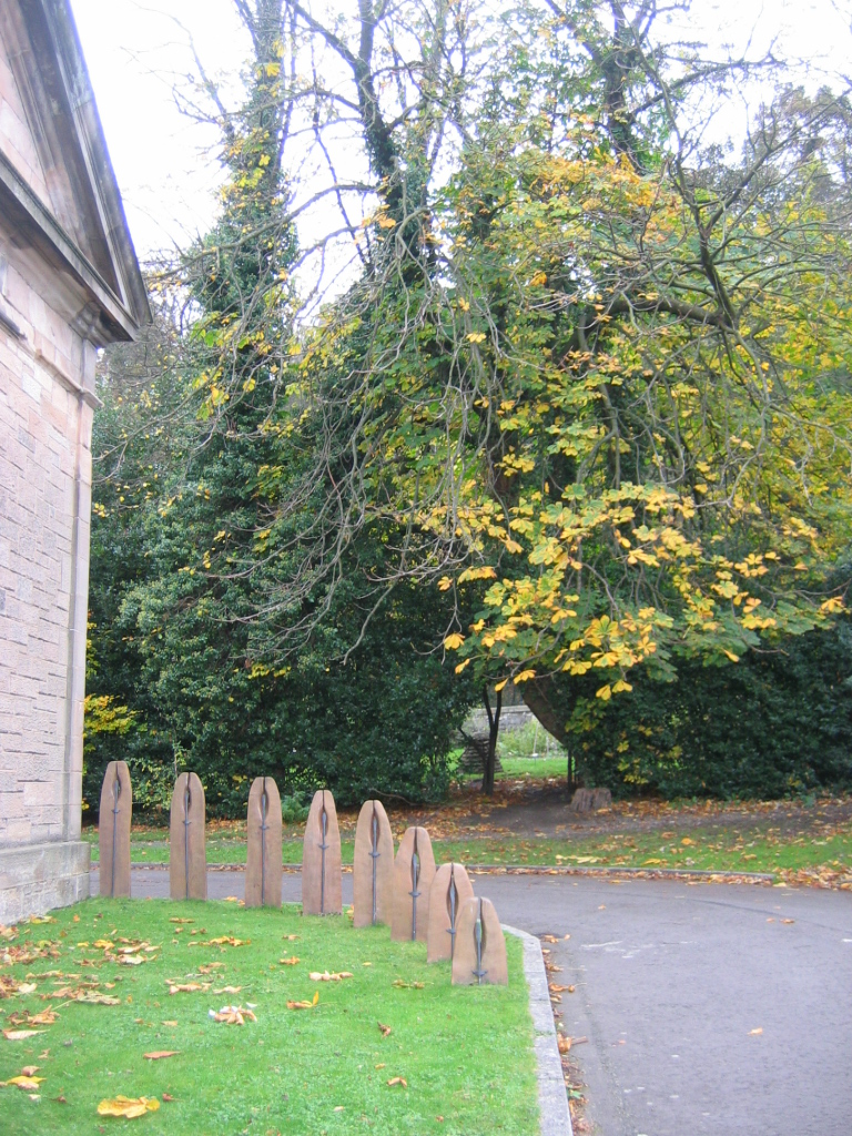 Stirling Art Gallery, Scotland